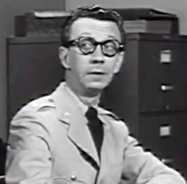 James Millhollin in trailer for "No Time for Sergeants" (1958)